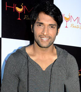 Shaleen Malhotra at the launch of Saumya Shetty’s resto bar – Hymus